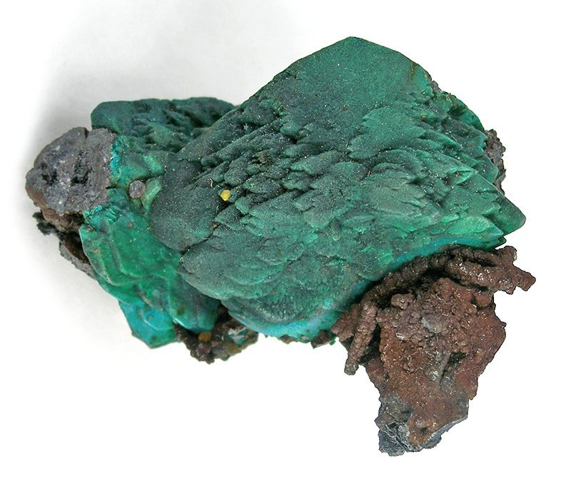 Azurite, Chrysocolla, Malachite Locality: Whim Creek Copper Mine (Whim Creek Copper prospect; Whim Well Mine), Whim Creek, Roebourne Shire, Pilbara Region, Western Australia, Australia (Locality at ) Size: small cabinet, 6.2 x 4.7 x 2.9 cm Chrysocolla ps. Malachite ps. Azurite A classic from this defunct locale! This is a DOUBLE PSEUDOMORPH showing a change of chemistry twice over to end up with a complete chrysocolla replacement of the original azurite crystal habit, with malachite as a transitional stage. Large and beautiful specimens of this calibre are very rare and hard to obtain. This piece i find particularly elegant because of the curvature of the azurites, and the sharp preservation of this form after two rounds of chemical replacement. Often, the pseudos get rounded with time and change. This one, however, is super sharp! For size, overall aesthetics, color hue, and curvaceous form - one of the best I know of!